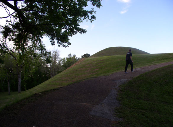 A photo of the Emerald Mound in Mississippi.